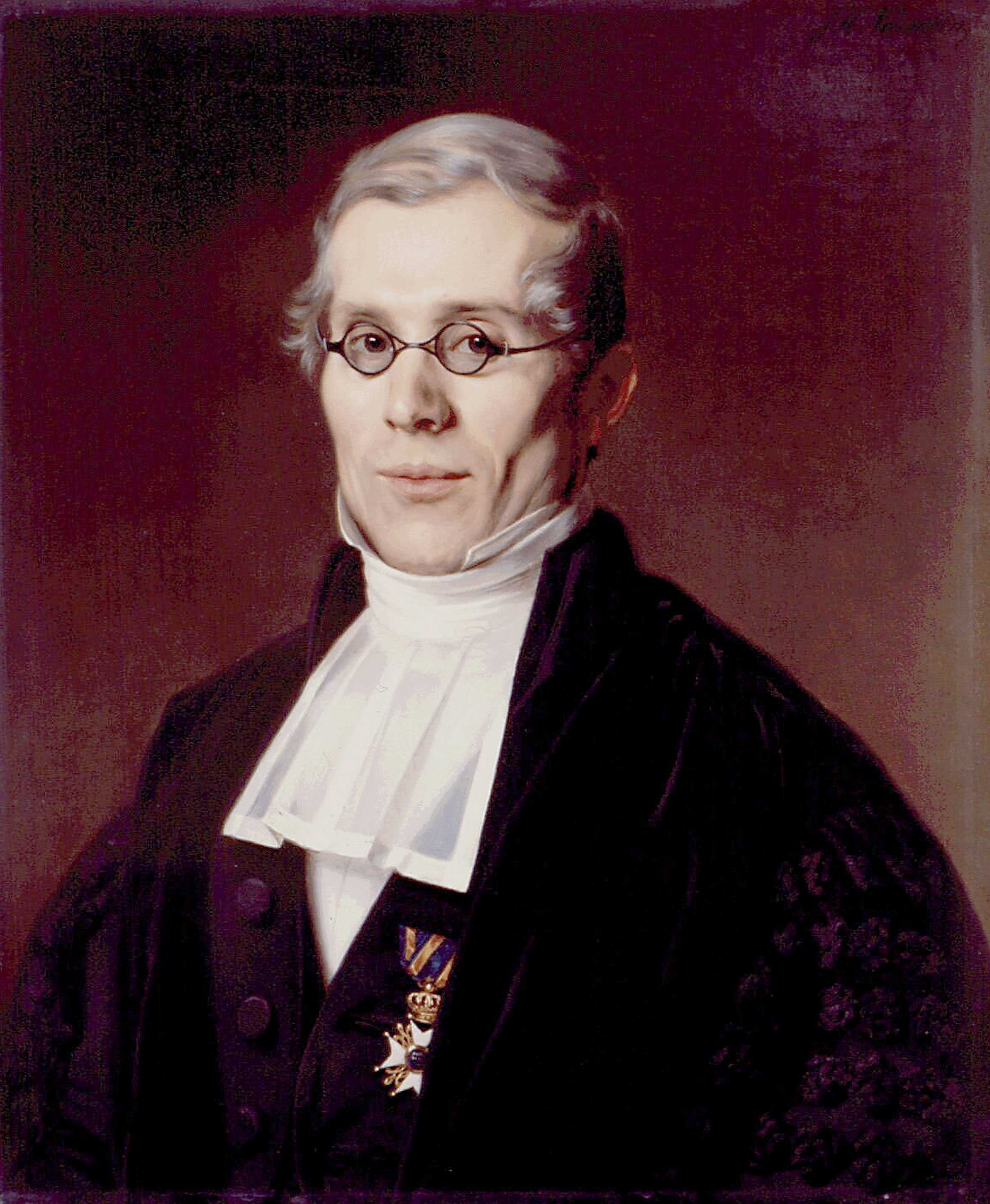 Simon Karsten (1802-1864), Dutch scholar (classical scholar)